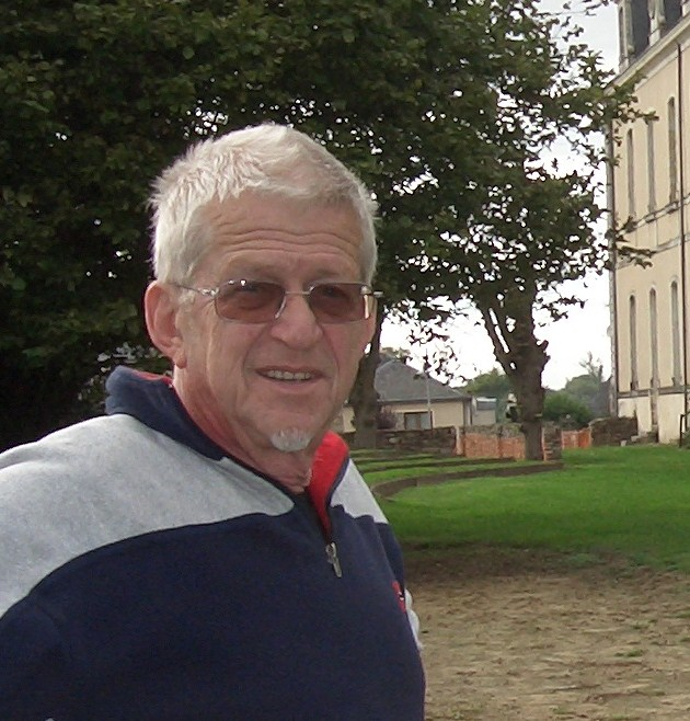 Photo de Maurice Nivat en 2006